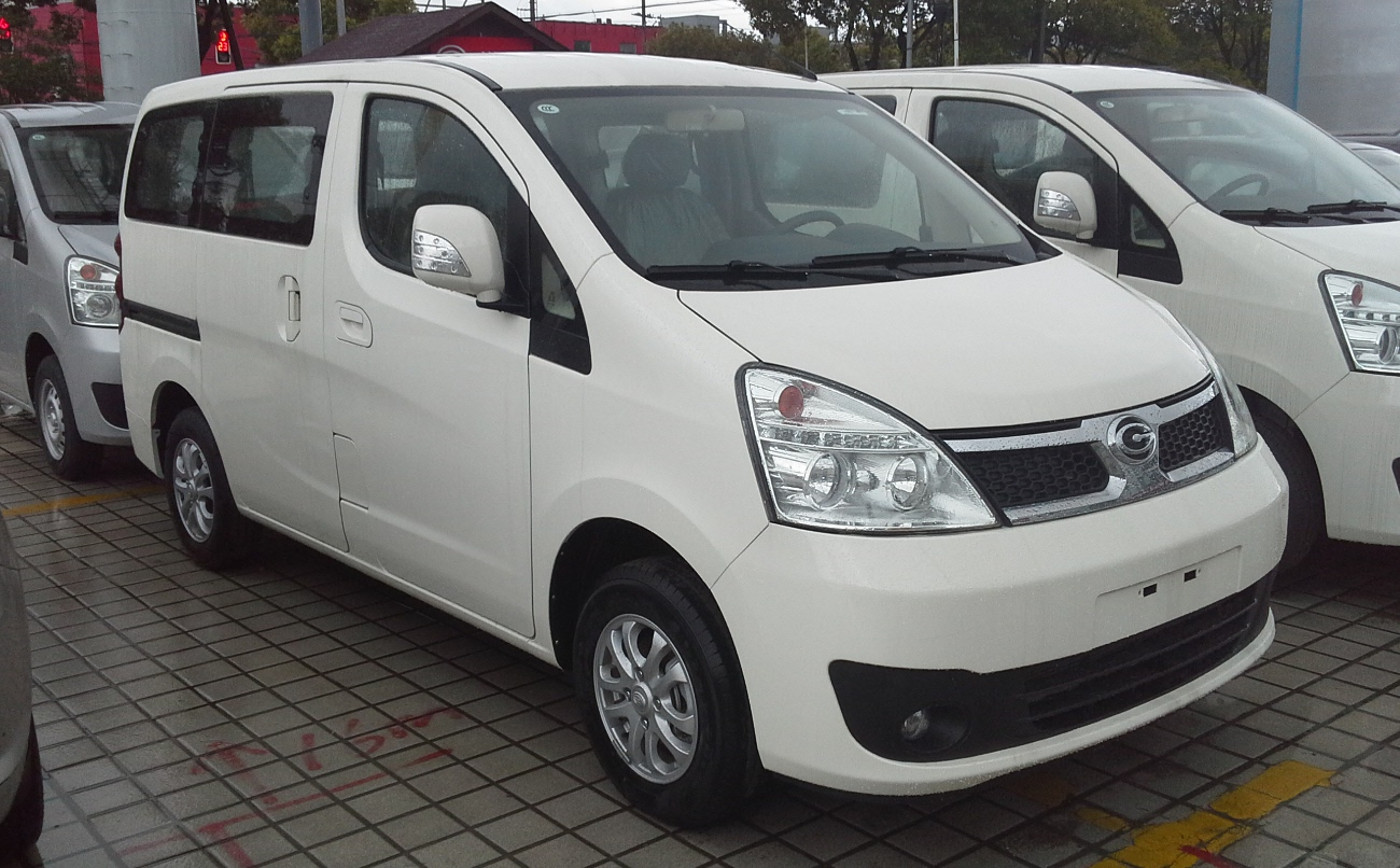 Gonow Xinglang photographed in Shanghai, China.